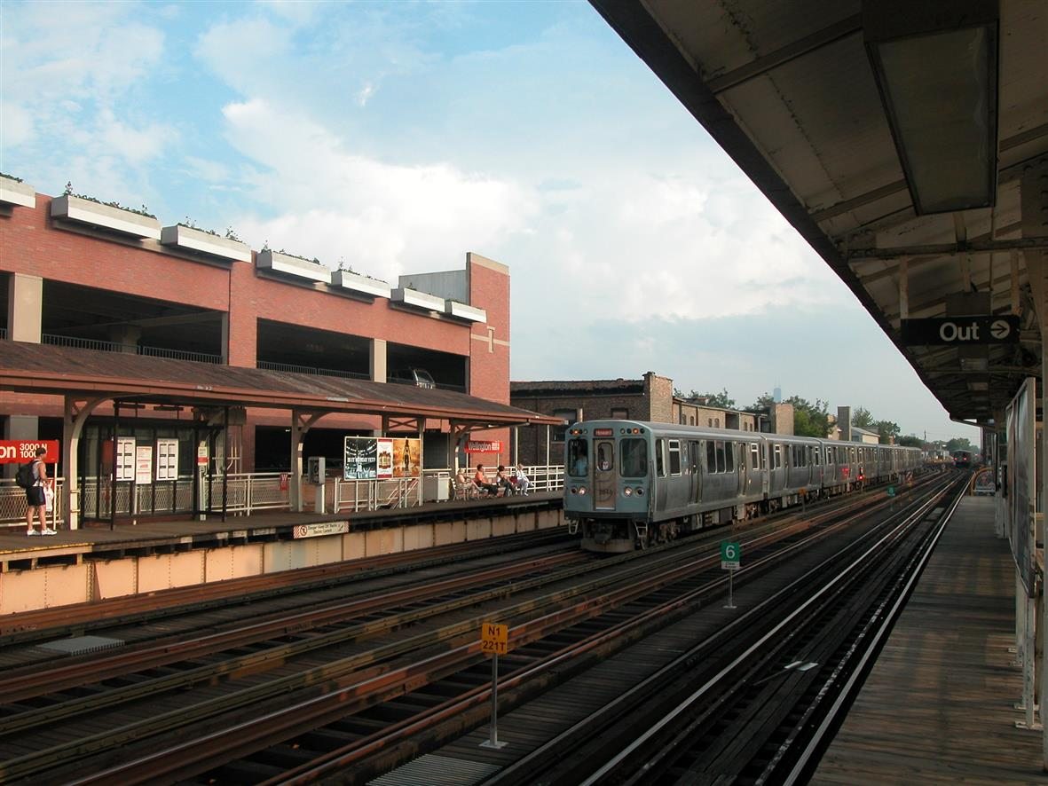 20070906 32 CTA North Side L @ Wellington